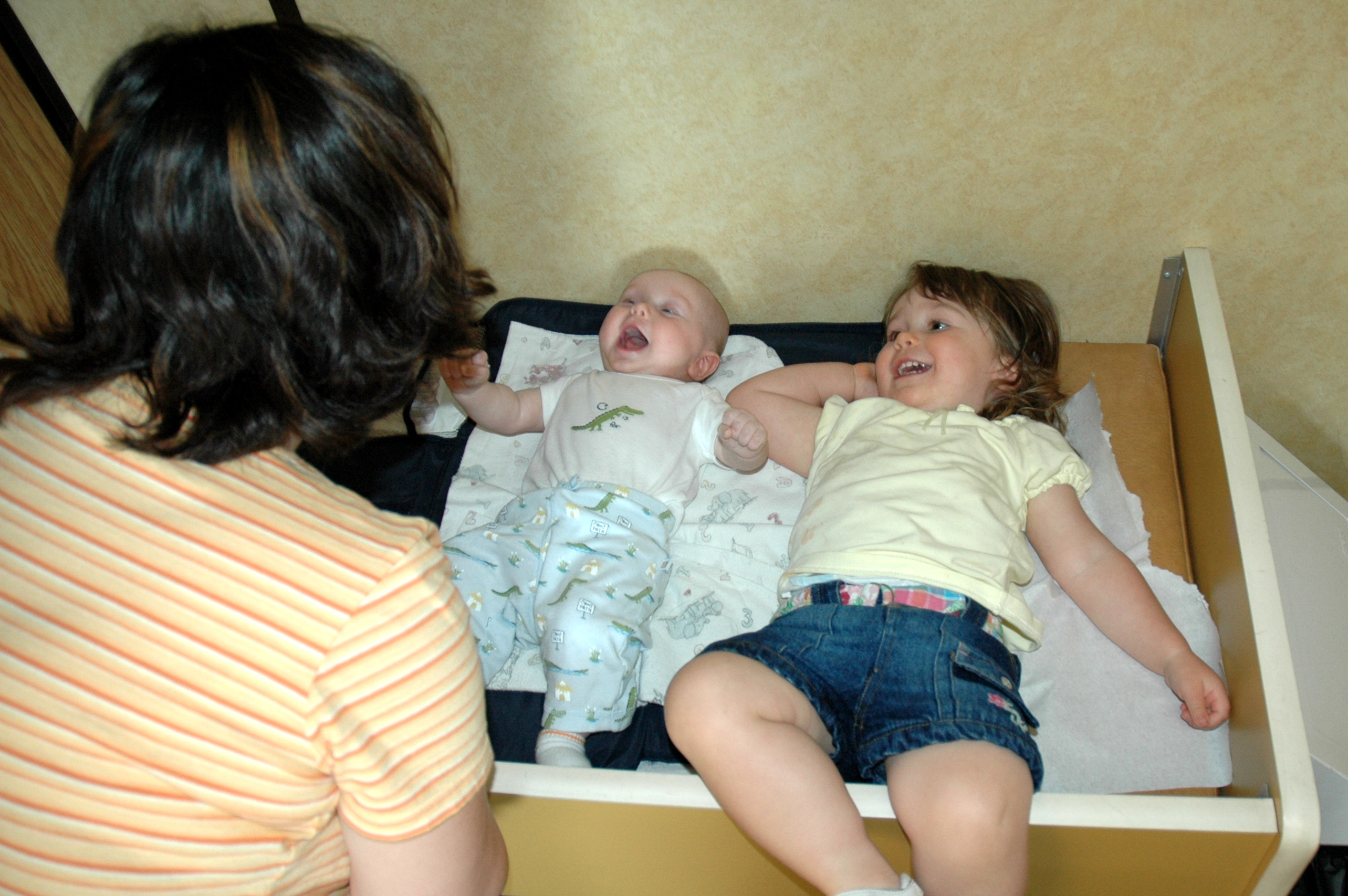 A changing table for changing diapers.